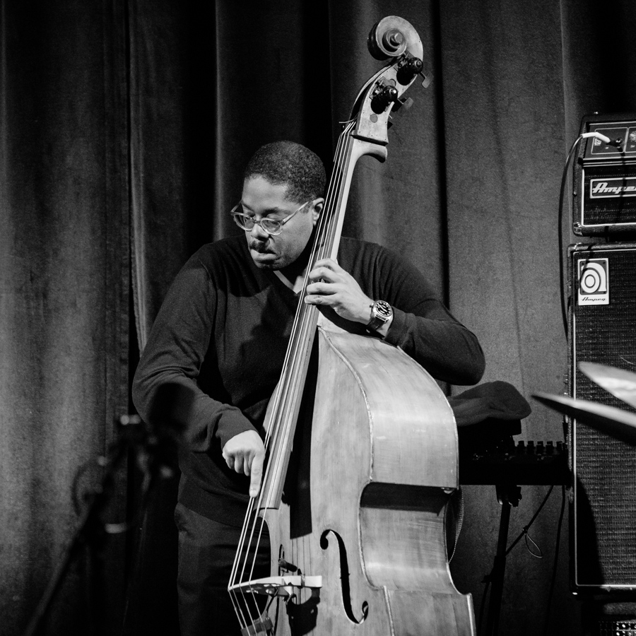 Vicente Archer in a concert with John Scofield at Victoria Teater. The concert took place on 10. May 2019 in Oslo. Lineup:John Scofield (guitar)Gerald Clayton (grand piano and hammond organ)Vicente Archer (double bass)Bill Stewart (drums)Joe Lovano (saxophone)